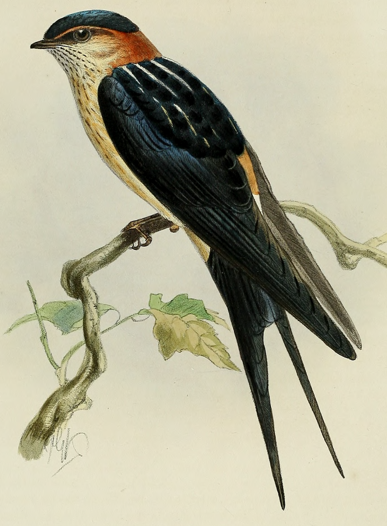 Cecropis daurica (rufula)